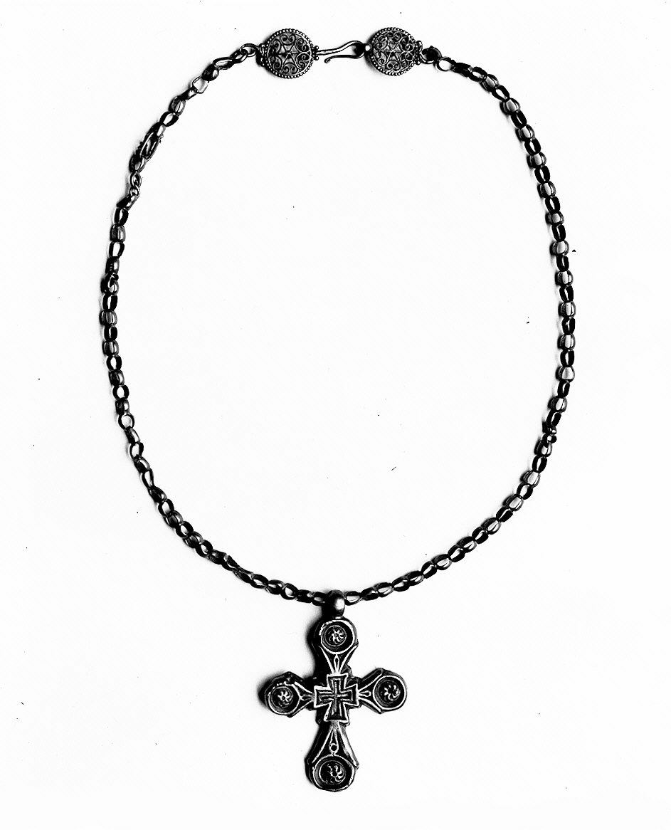 Byzantine; Necklace; Metalwork-Gold